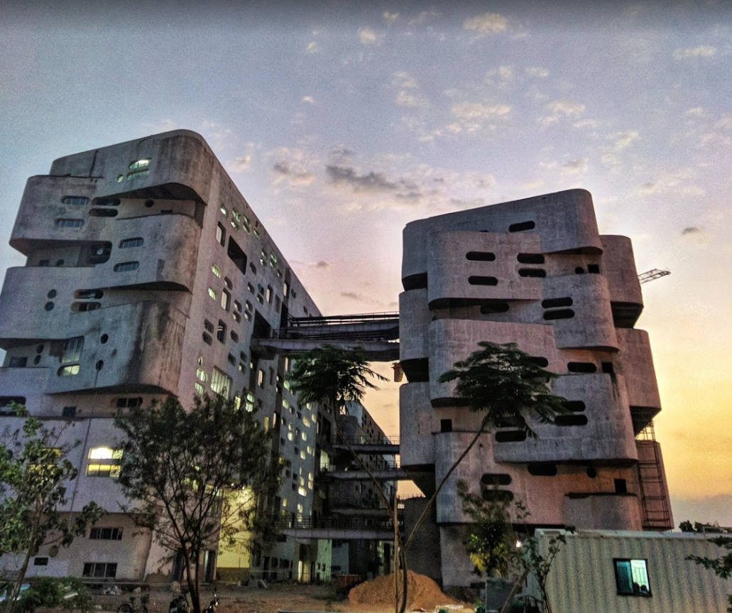 IIT I infrastructure taken by Canon